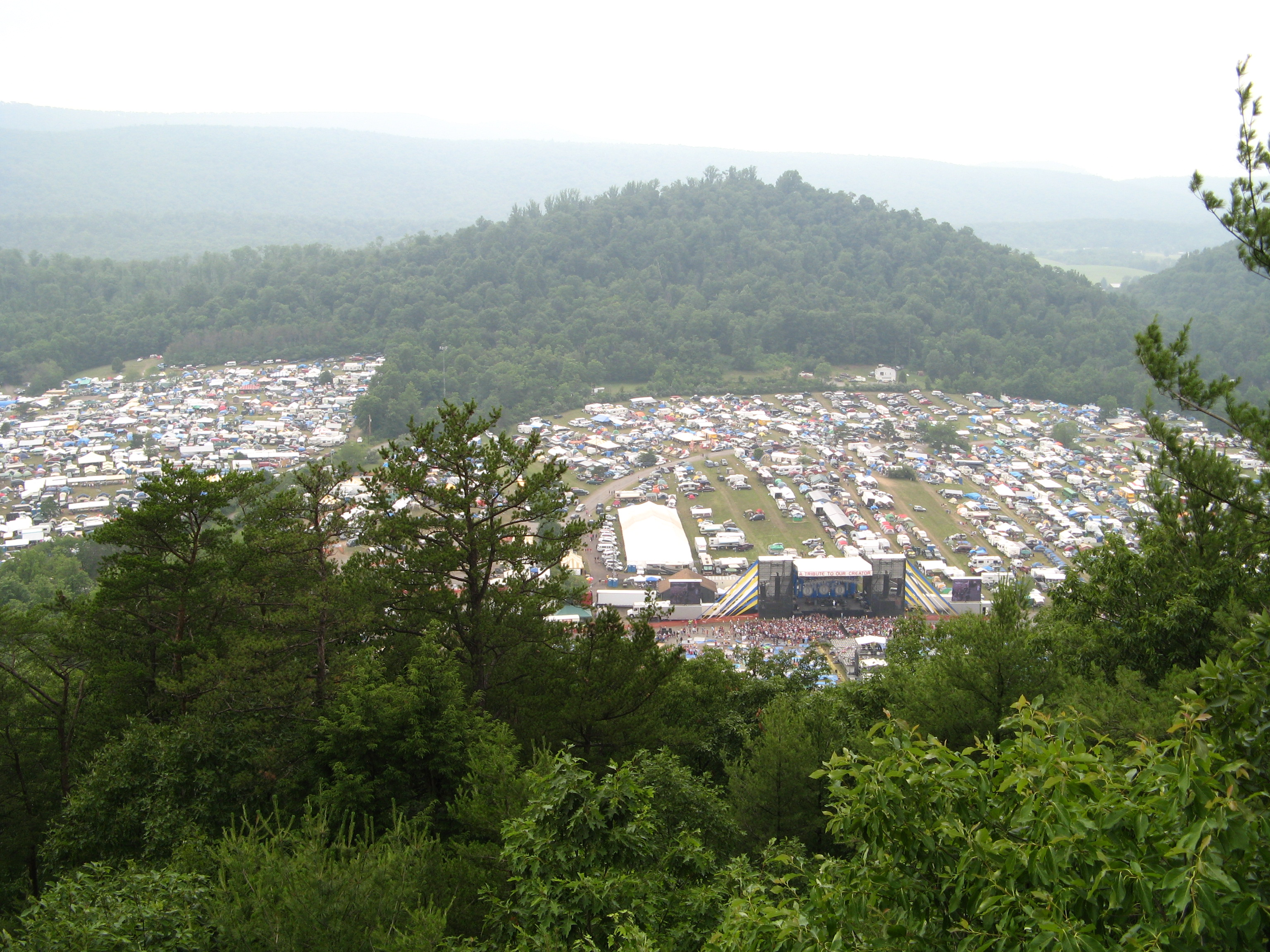 A view of Creation North East from the lookout. The main stage is visible along with some of the camping tents.